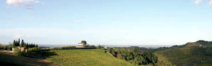 The hills of Cesena.